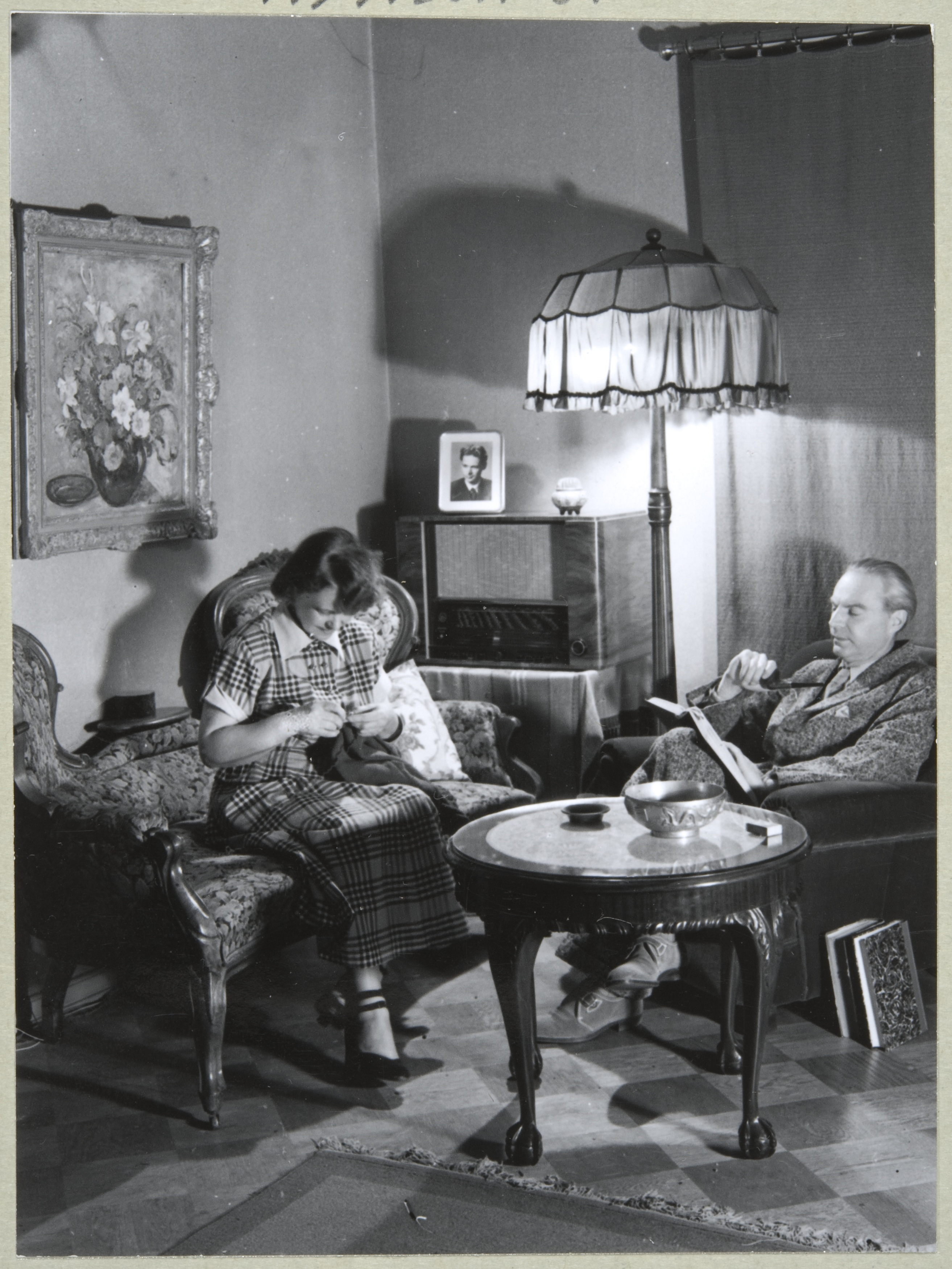 Photograph of the Finnish painter Anna Snellman-Kaila (1884–1962) with her husband, philosopher Eino Kaila (1890–1958).